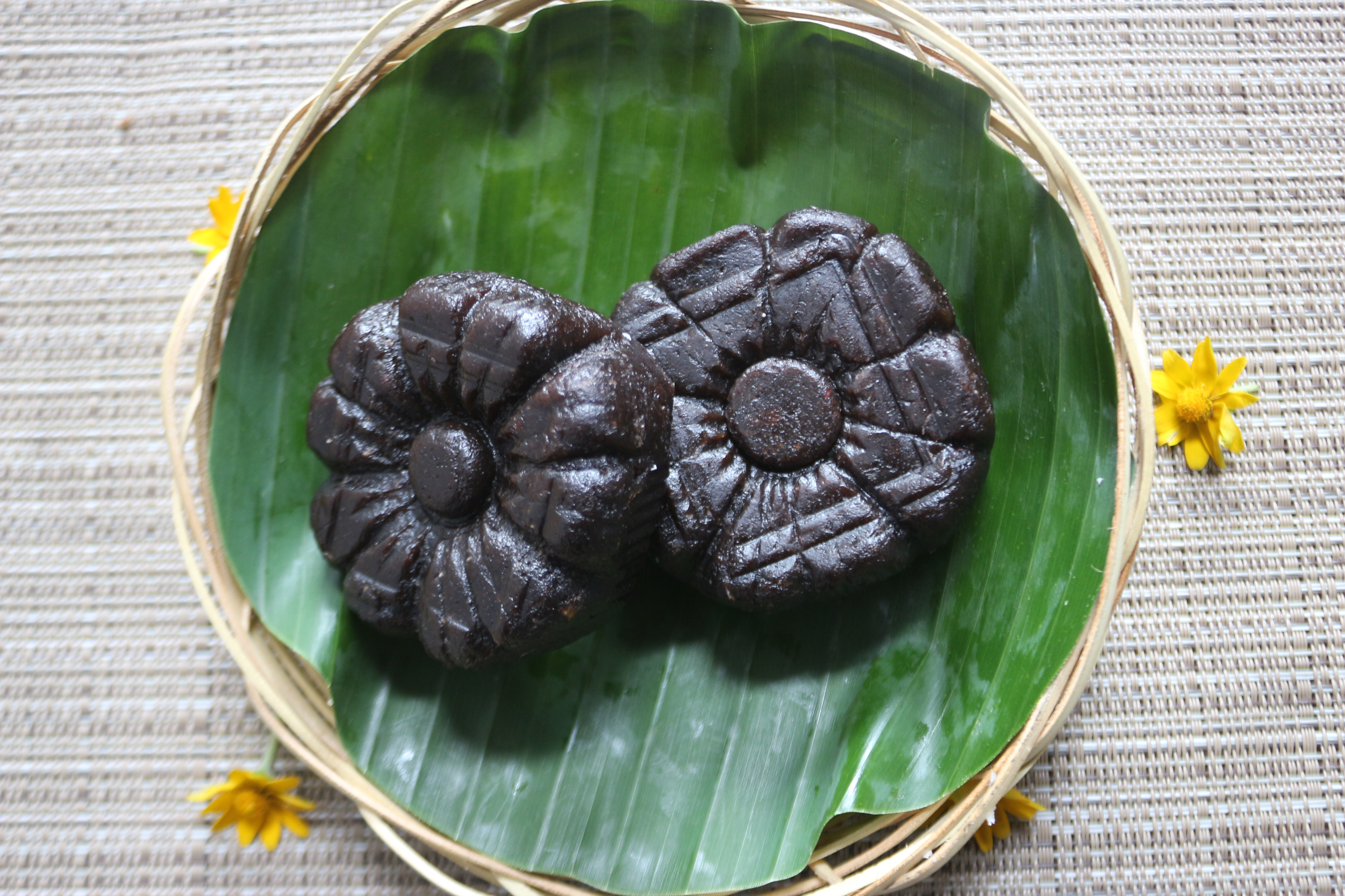 Iwel is traditional balinese snack foods.